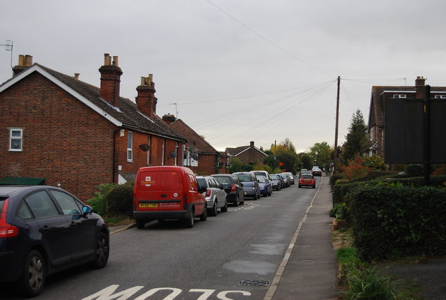 Barden Rd, Speldhurst